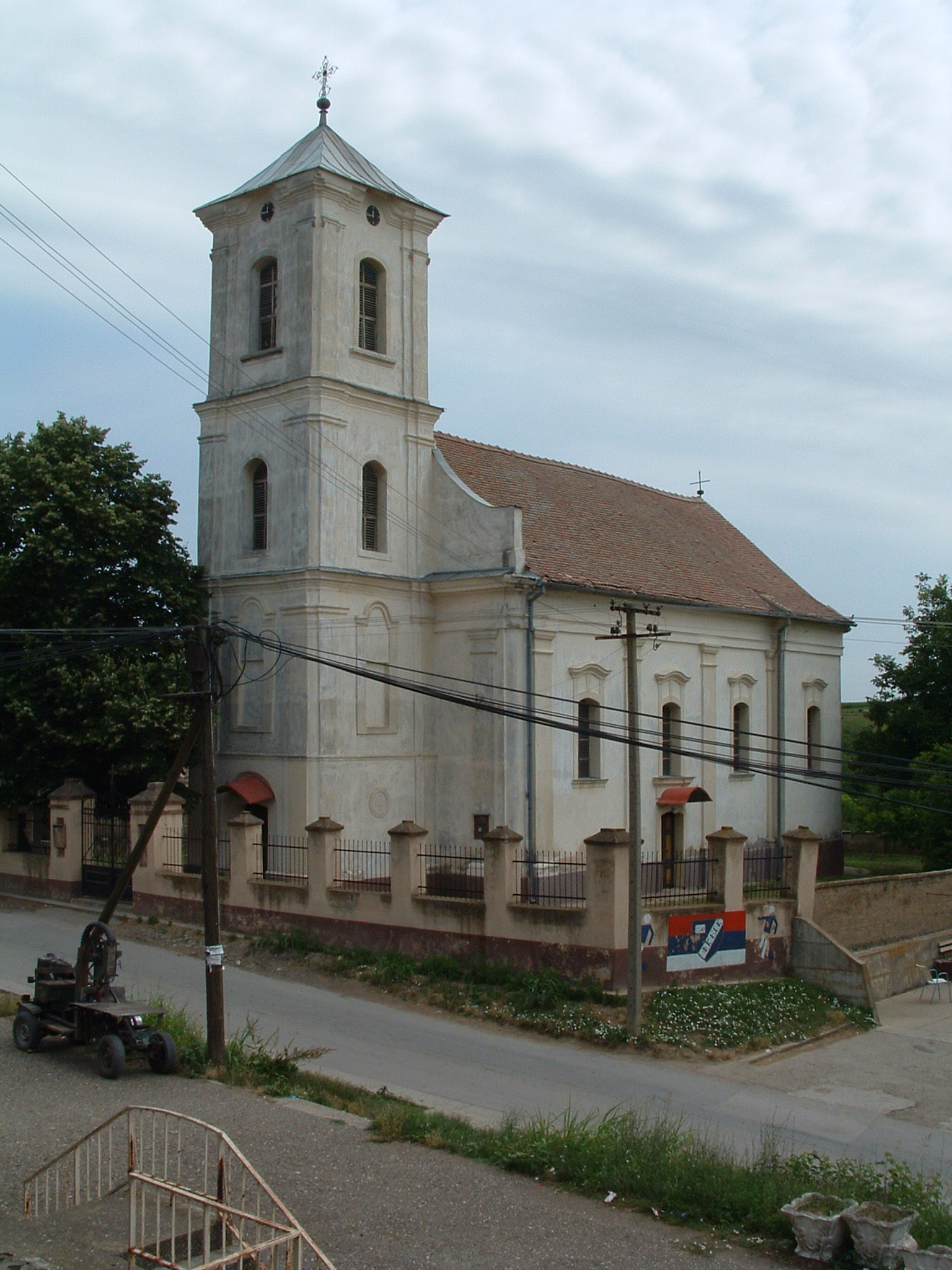 Church in Bešenovo